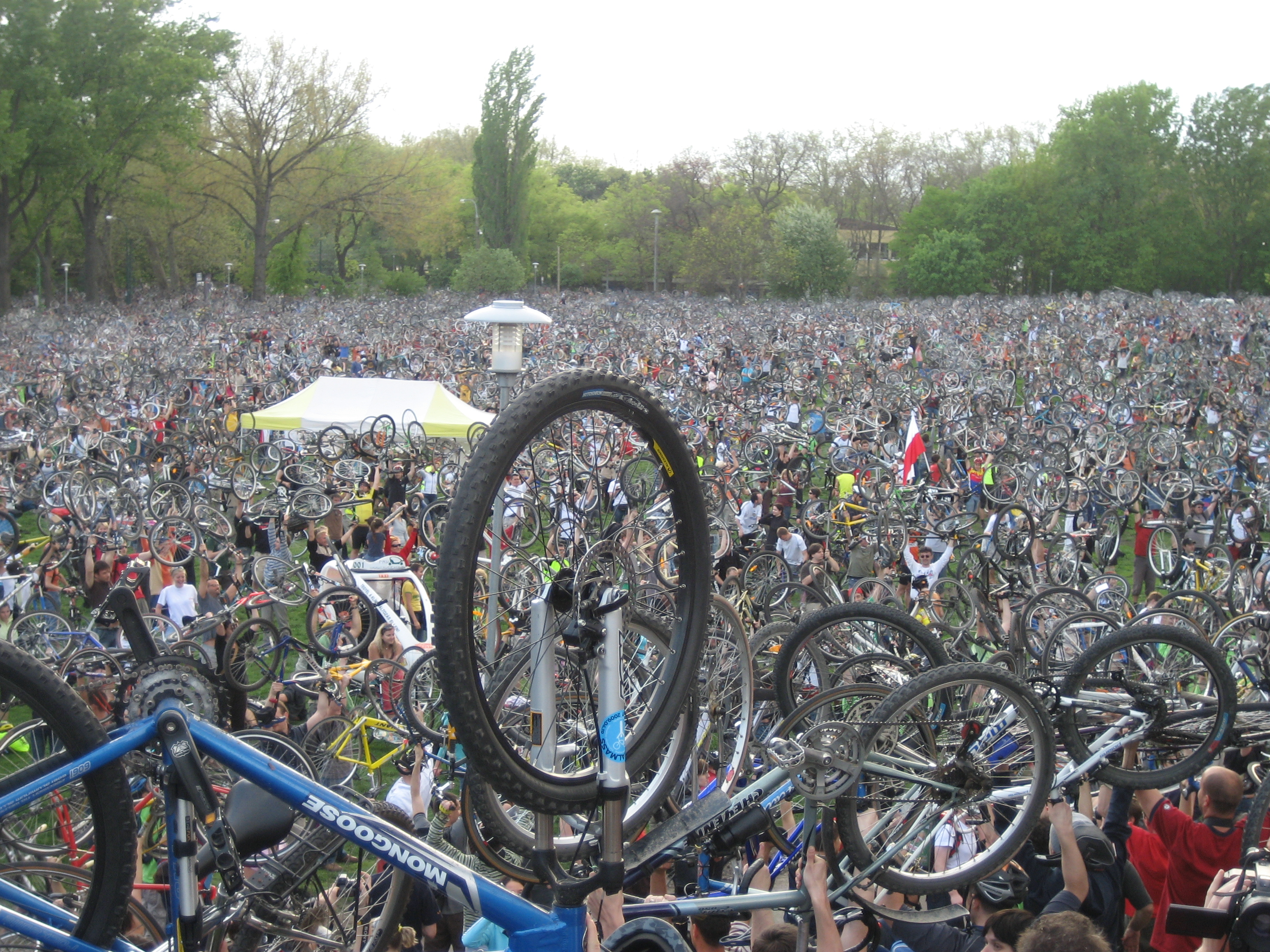 Critical Mass in Budapest, April 19, 2009